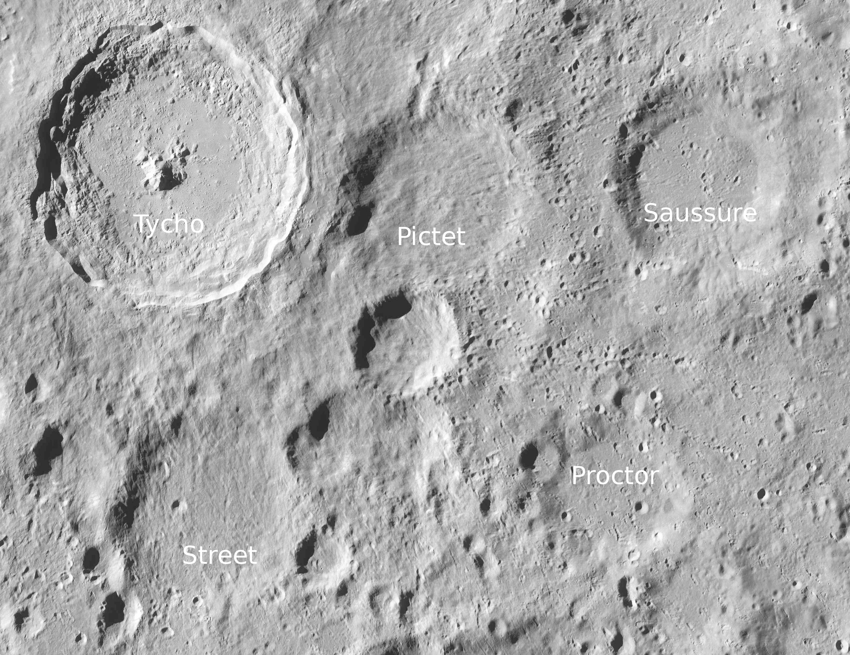 Craters Tycho, Pictet, Saussure, Street and Proctor (detail of LRO - WAC global moon mosaic; Mercator projection)